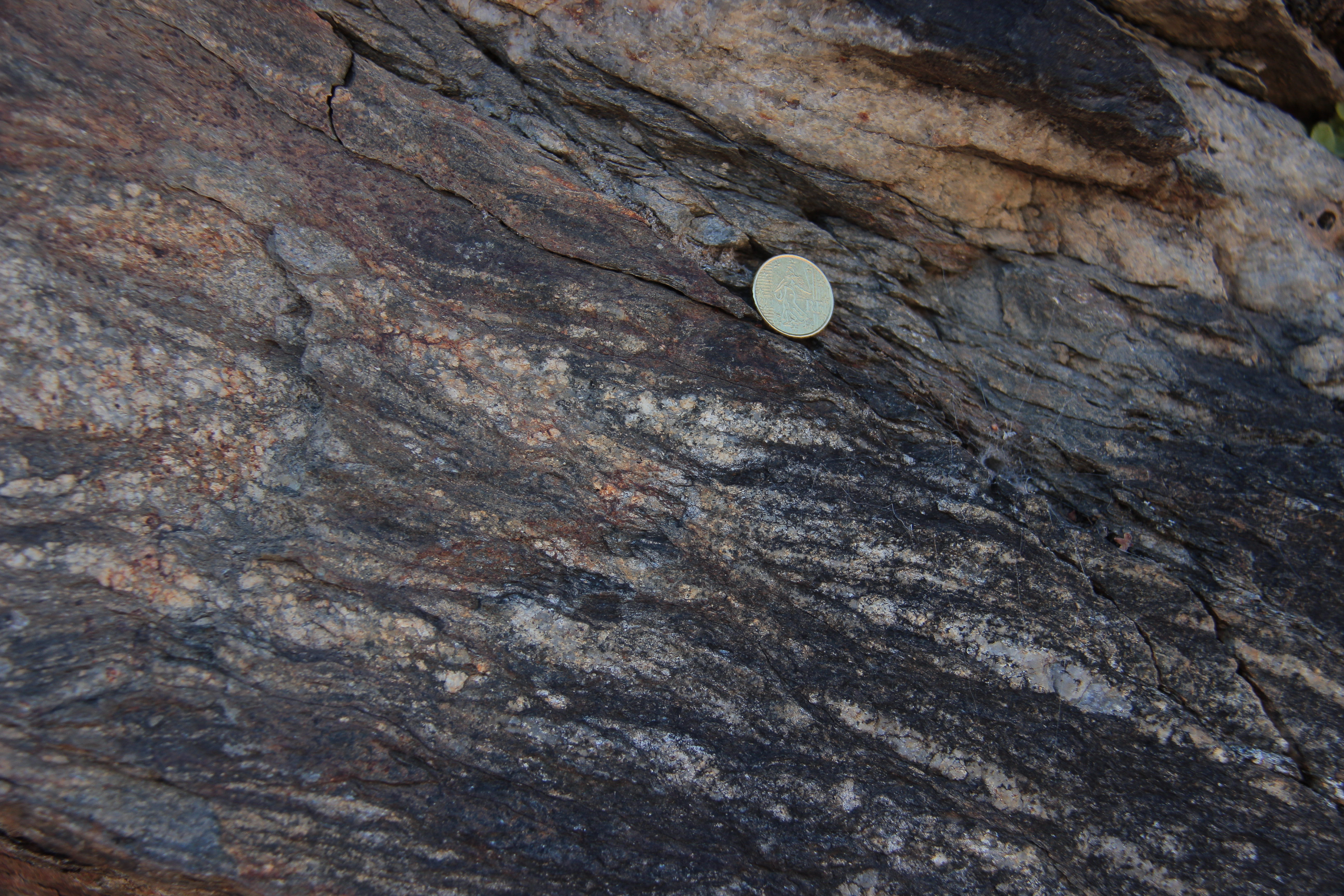 Variscan migmatite (300 Ma) in gorges de la Carança (Pyrénées orientales, France).